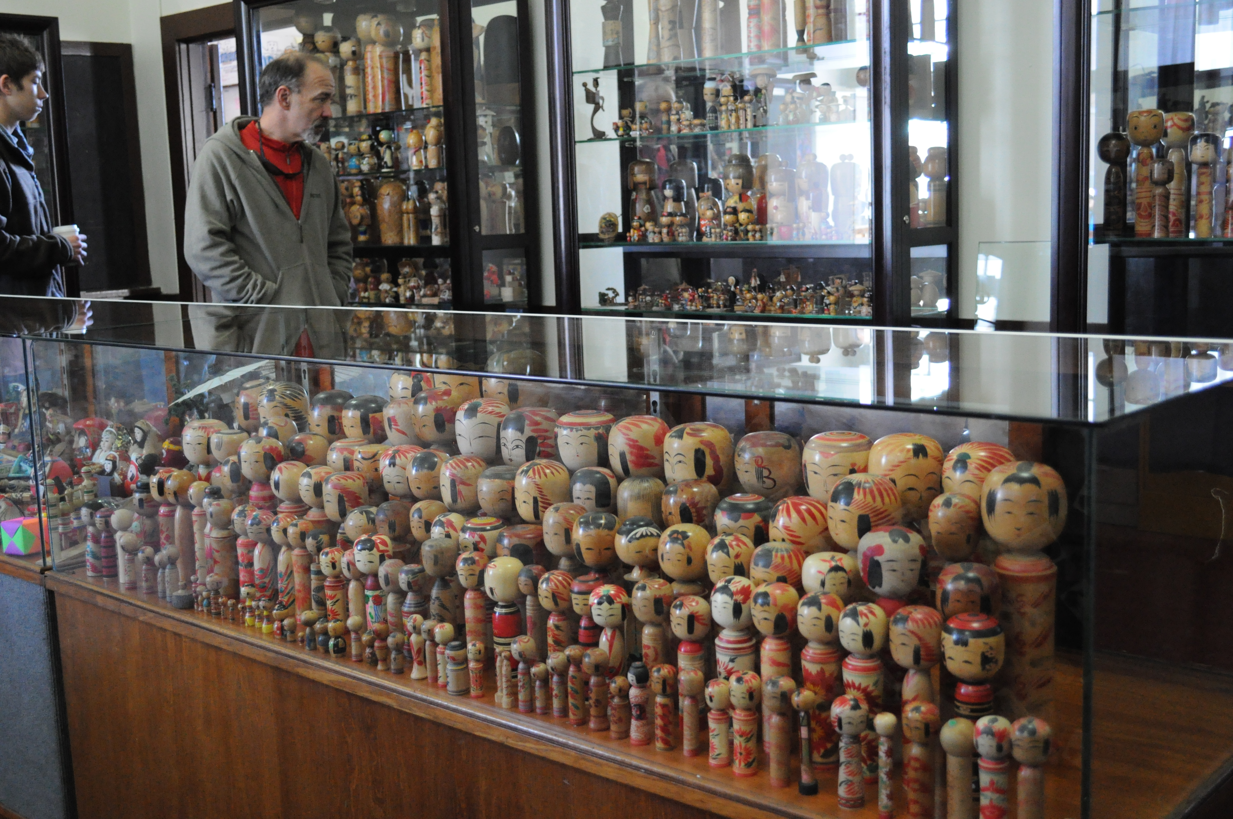 Kokeshi exhibit (November 2009-April 2010) at Seattle's Nihon Go Gakko / Japanese Cultural & Community Center. "Seattle Collects: 1,000 Kokeshi".